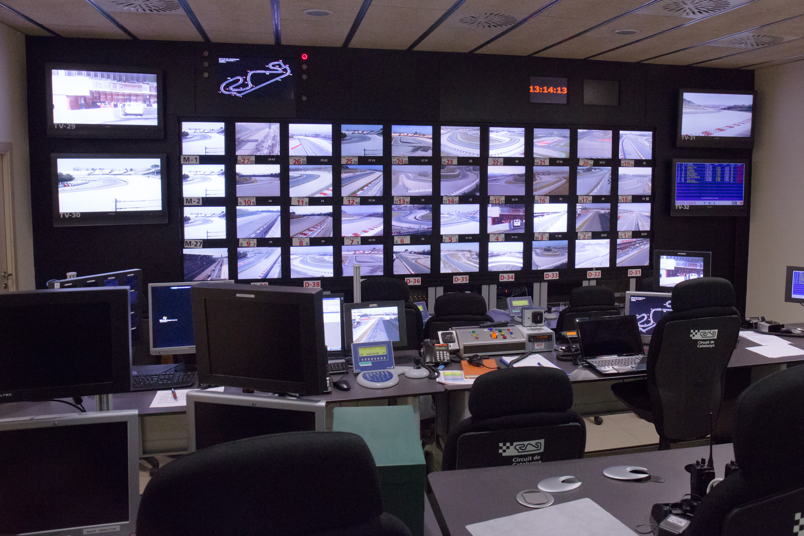 Formula One 2013 Catalonia test (19-22 February): Control room